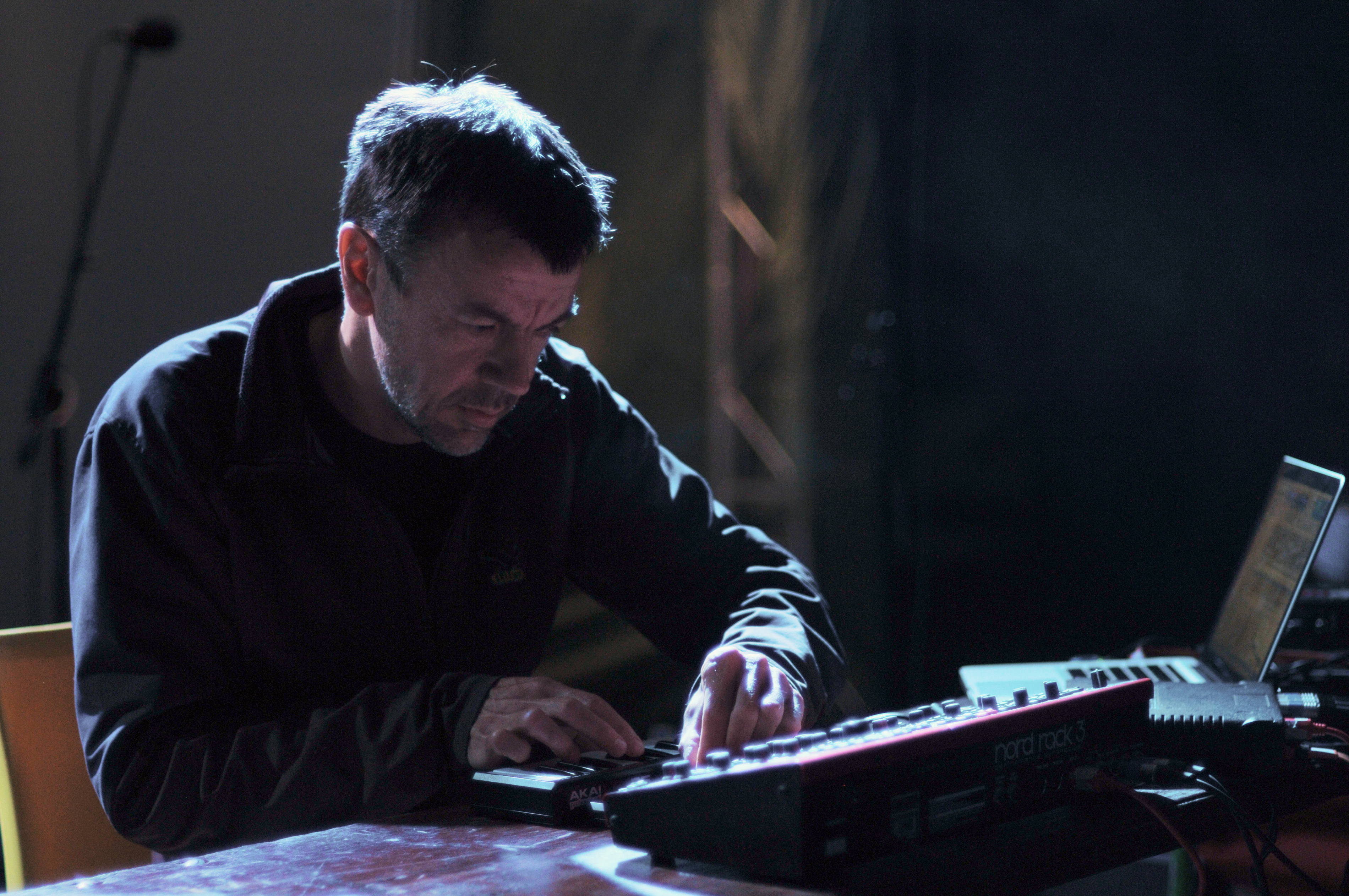 Geir Jenssen performing at Creative Camp Sajeta 2011, Tolmin, Slovenia.